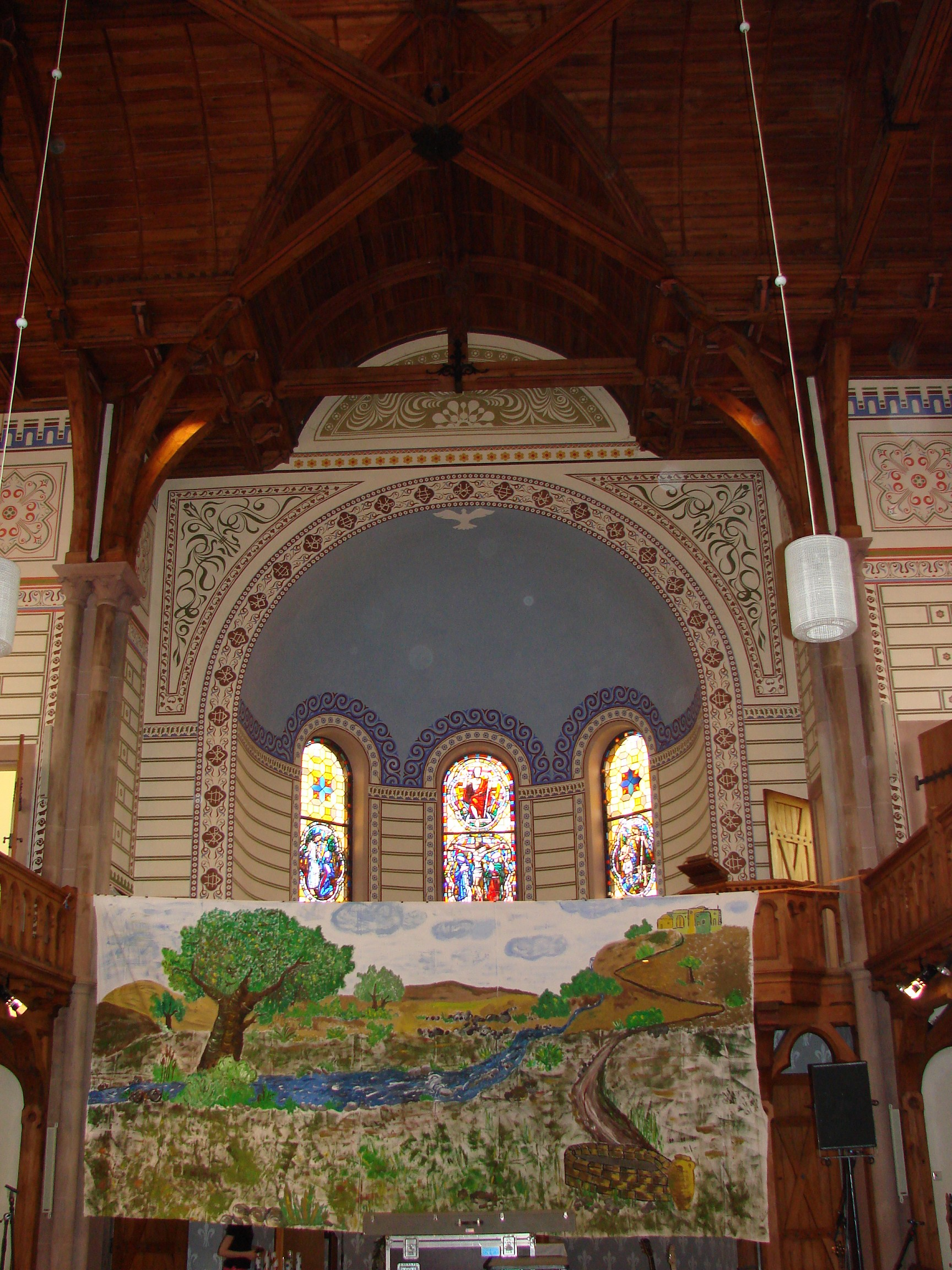 Wimsheim, St. Michaelis church, view of the interior